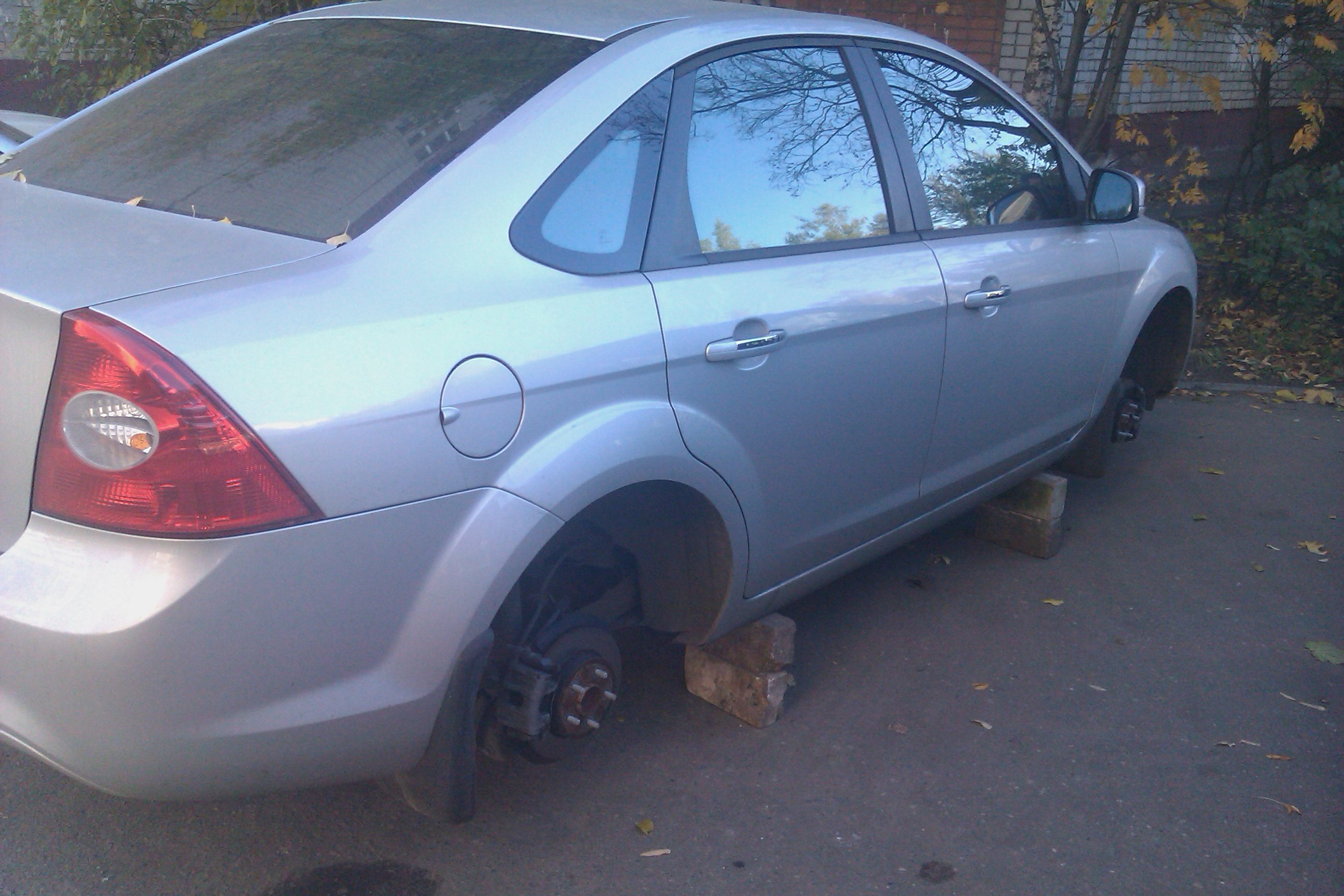 ukrali kolesa